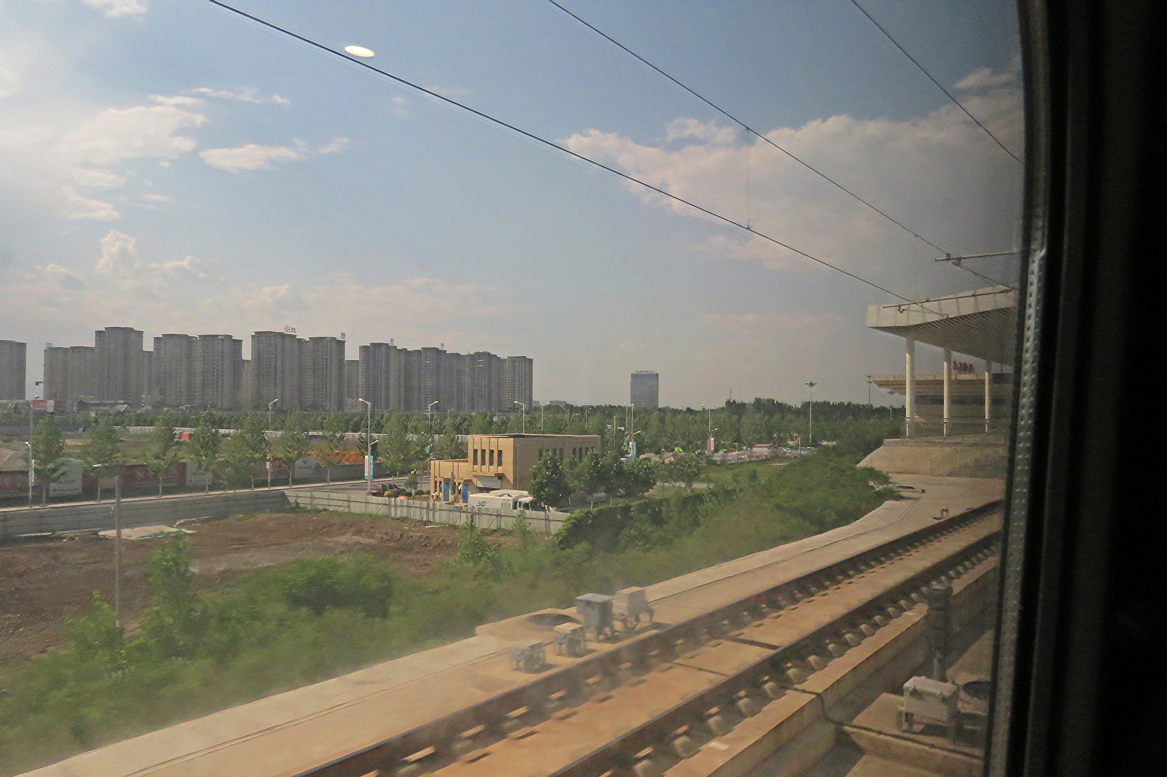 Taken from G556.